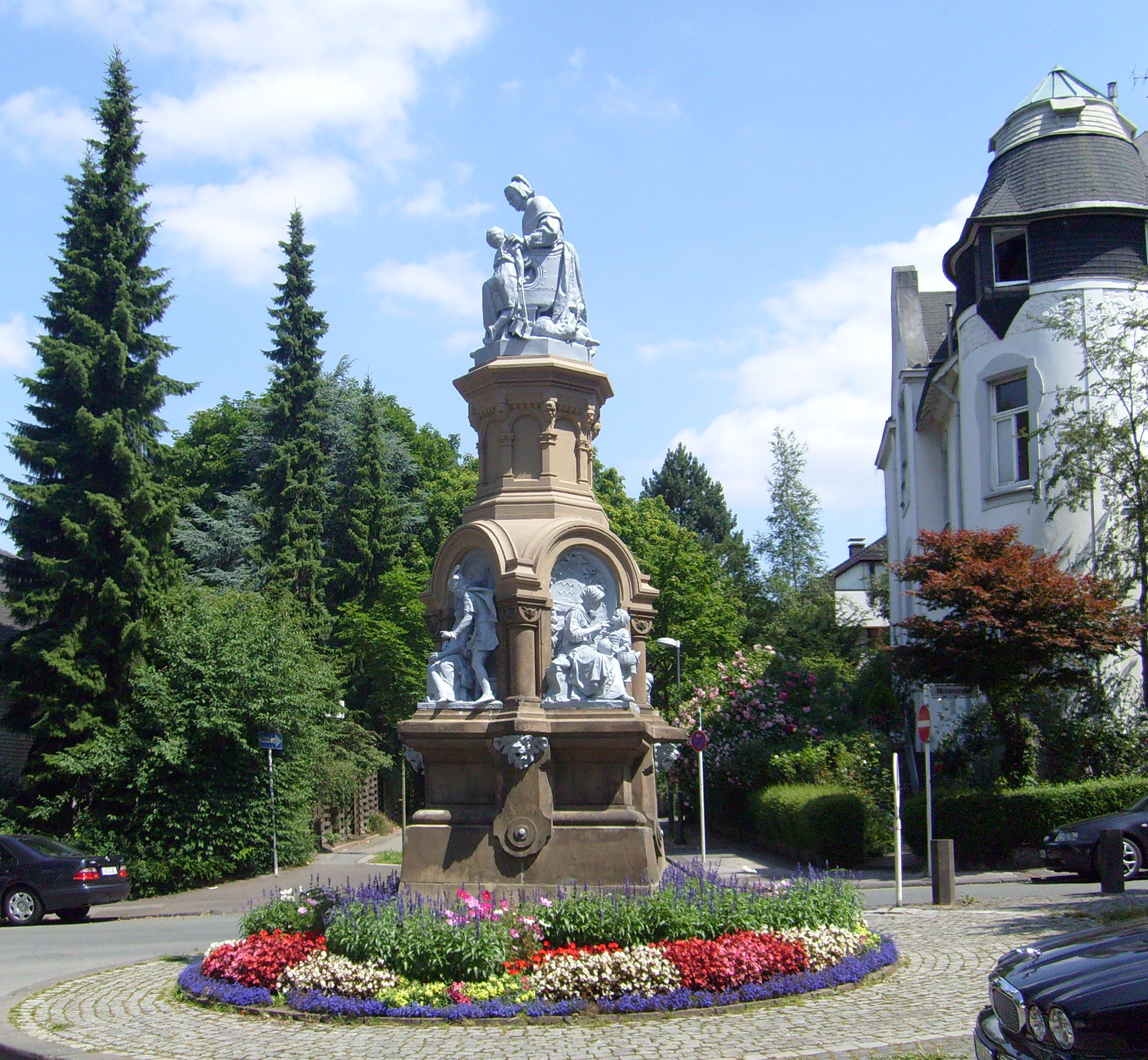 Fairy tale fountain at Wuppertal - Germany